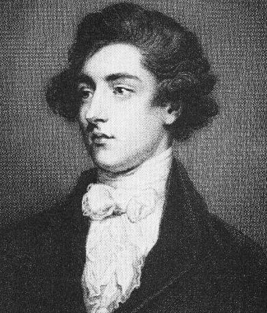 William Beckford